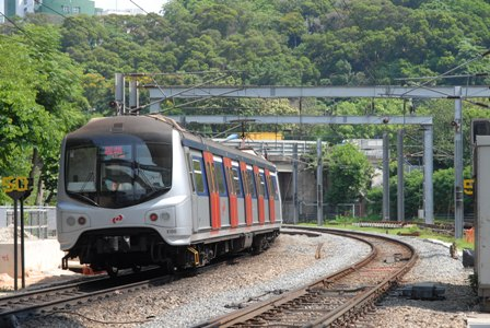 KCRC second generation EMU